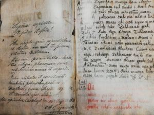 Part of the content of Karlobag medical books from the reprint "Reprint and analysis of Karlobag medical books from 1603 and 1707"